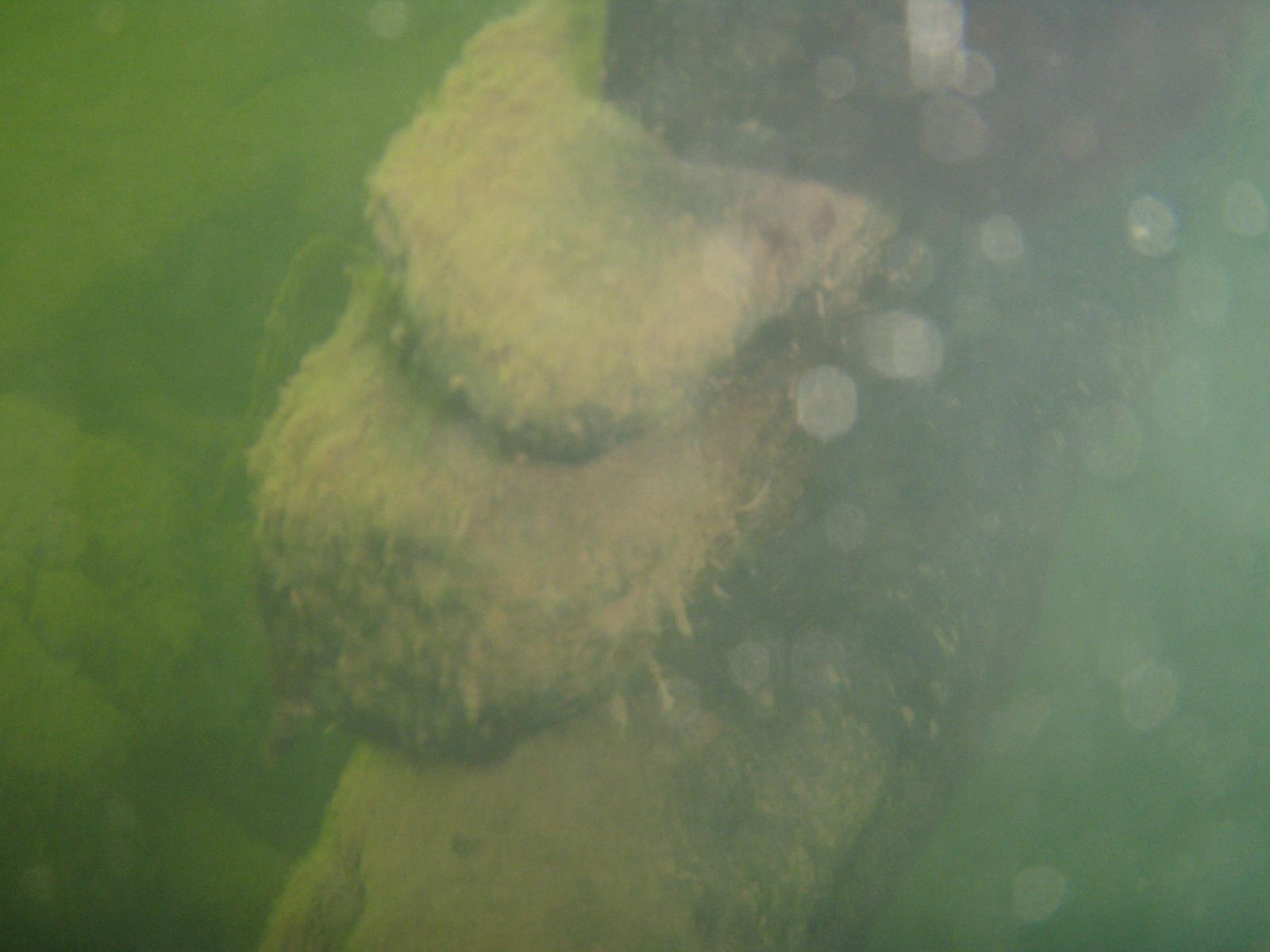 An underwater photo of Samuel P. Ely (shipwreck) off the breakwater in Two Harbors, Minnesota.